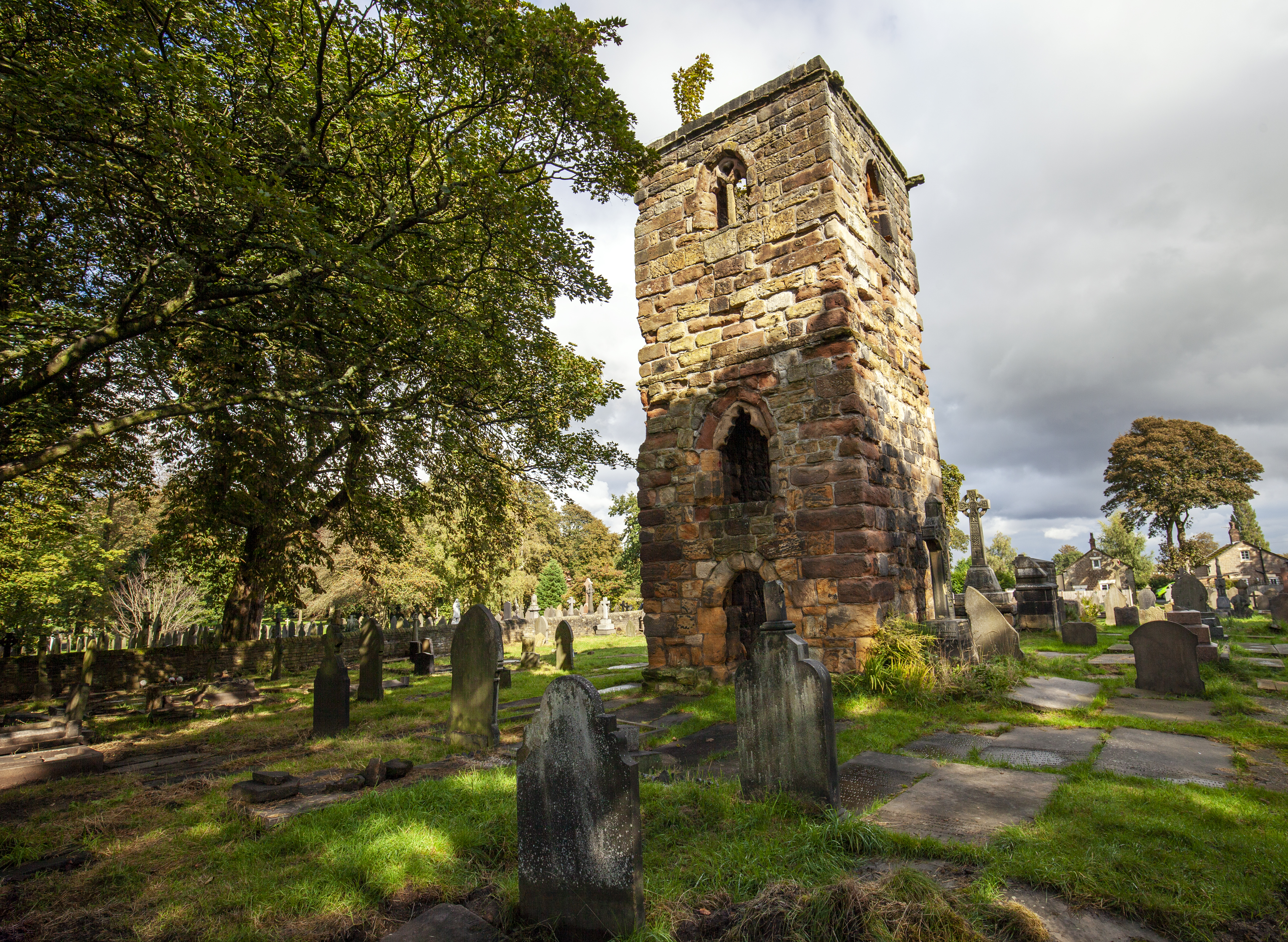 Ruins Of Windleshaw Abbey In Roman Catholic Cemetery (chapel Of Saint Thomas Of Canterbury) Wikidata has entry Q17557124 with data related to this item.